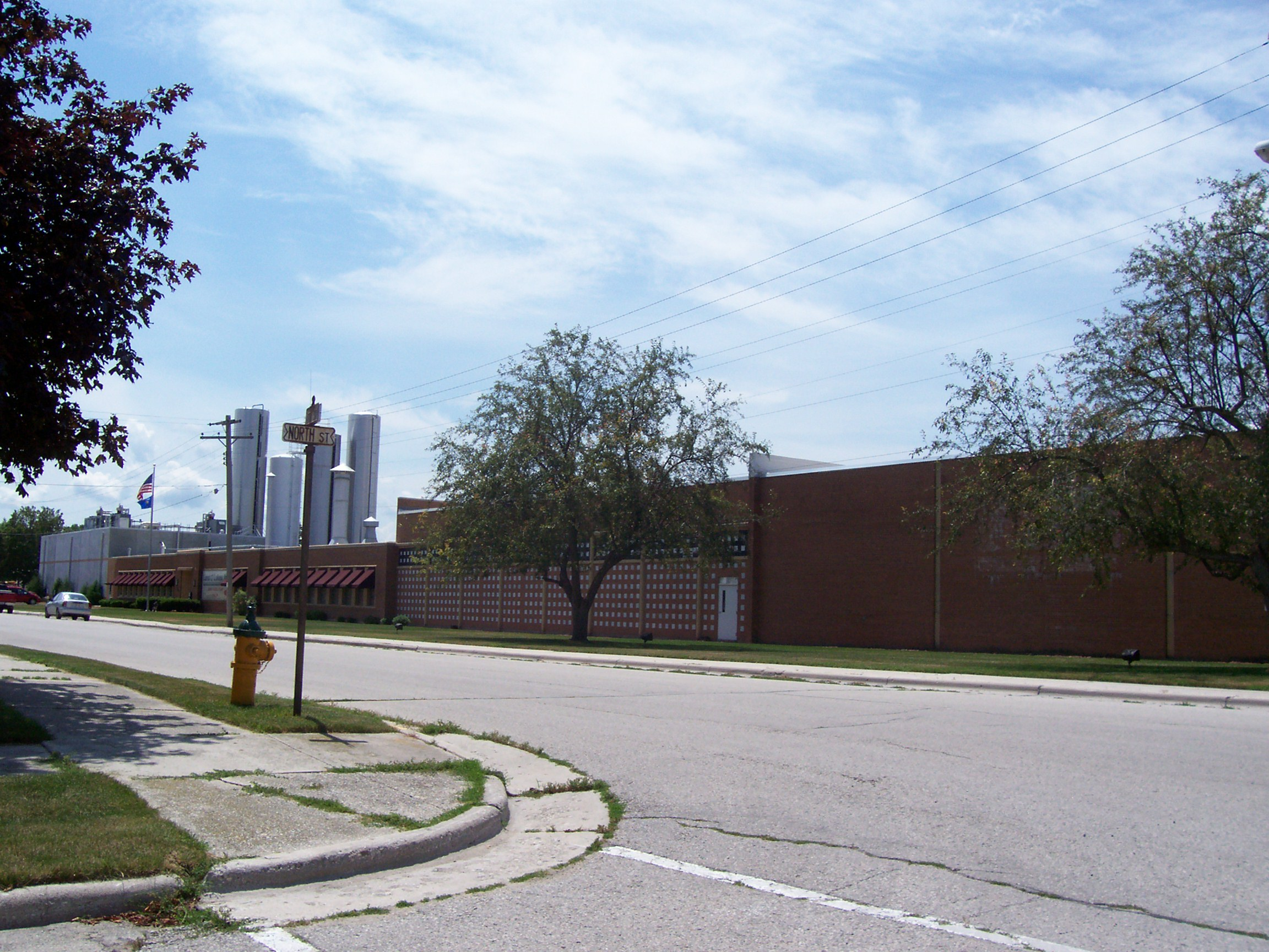 Lake O'Lakes milk processing plant in Kiel, Wisconsin, USA, taken July 22 en:2006 by myself.